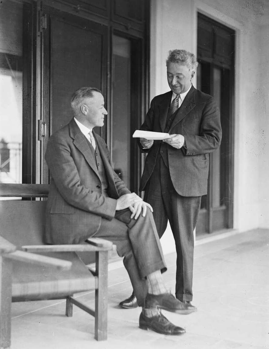 Prime Minister Joseph Lyons (right) with his deputy, John Latham